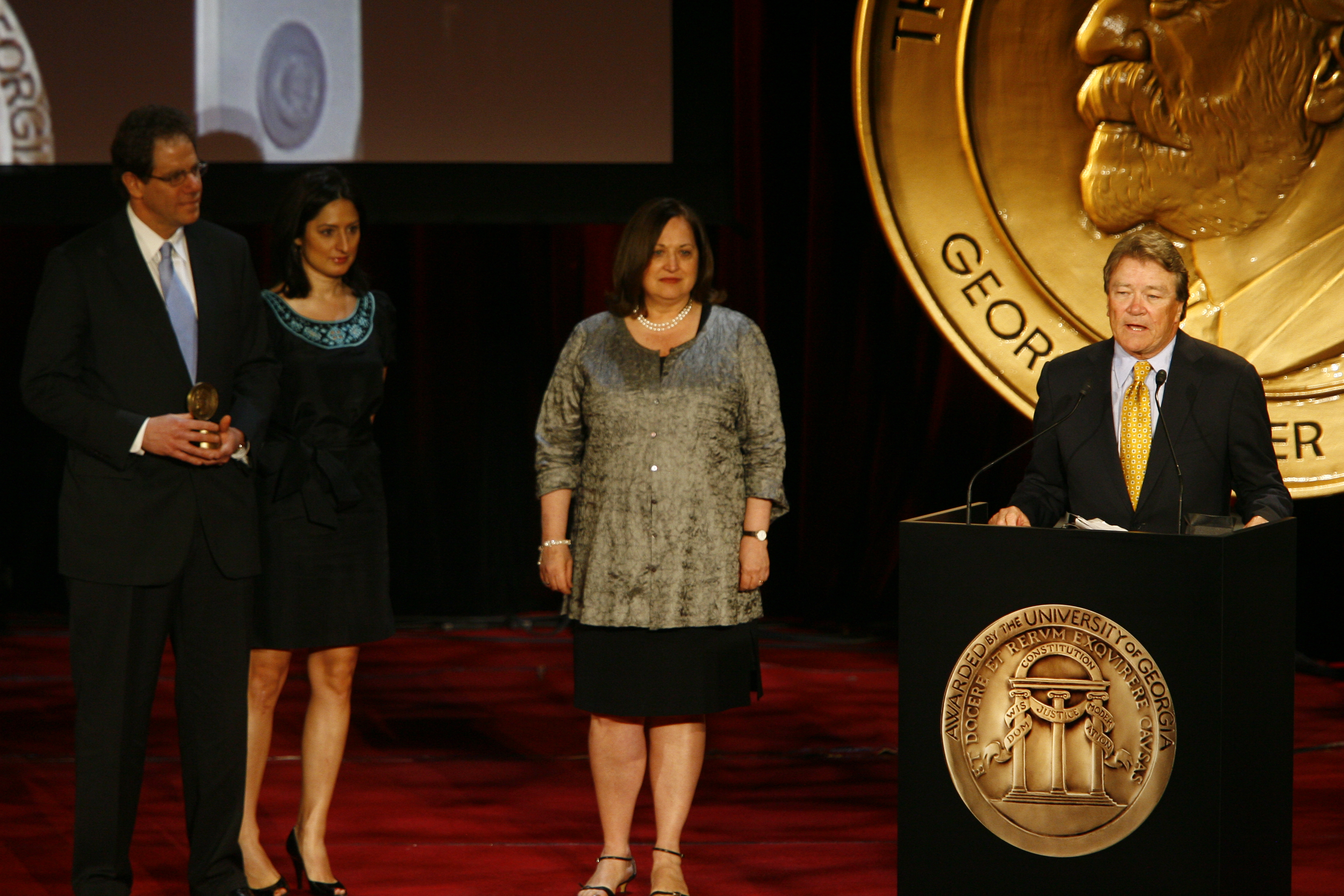 Andy Court, Maria Gavrilovic, Stephanie Palewski, and Steve Kroft accept a Peabody Award for 60 Minutes: The Co$t of Dying 69th Annual Peabody Awards Luncheon Waldorf=Astoria Hotel New York, NY USA May 17, 2010